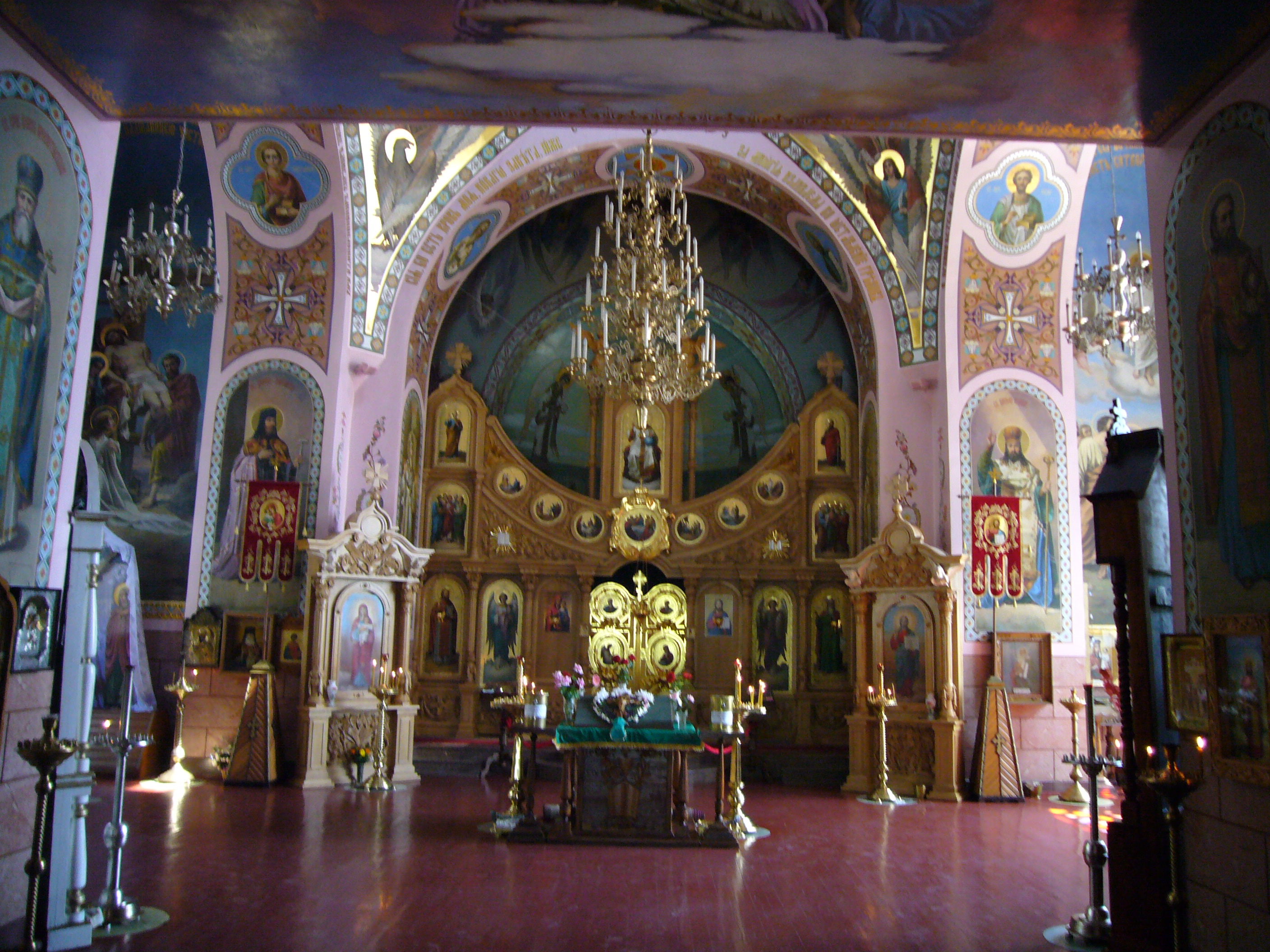 Inside St. Elias Church (Greek Church) (1918) in Eupatoria, Crimea, Ukraine